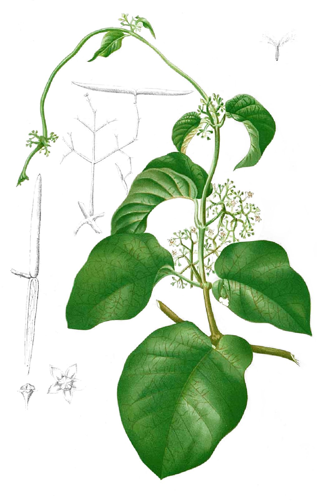 Plate from book